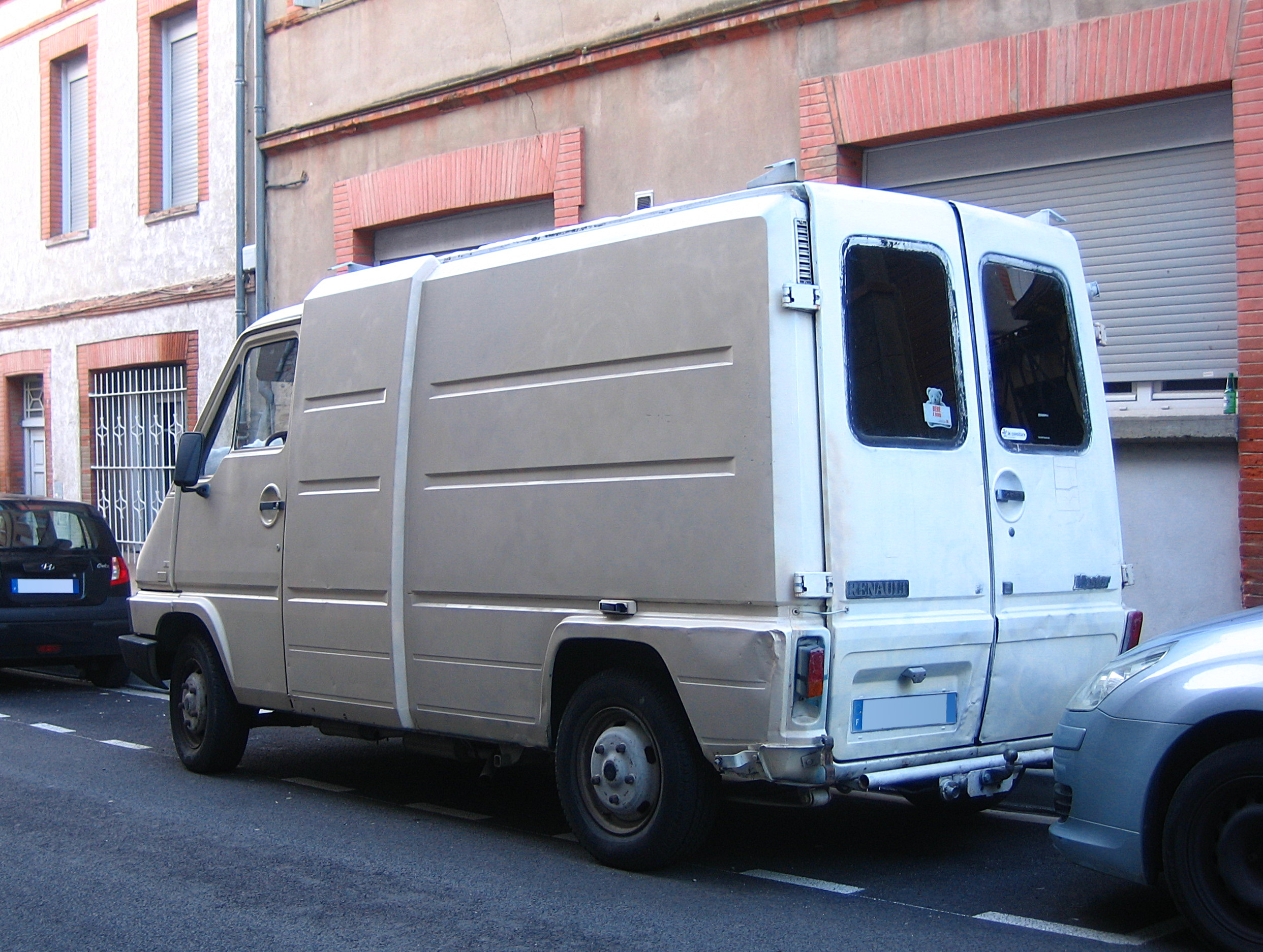 "Phase 1" Renault Master I (1981-92).